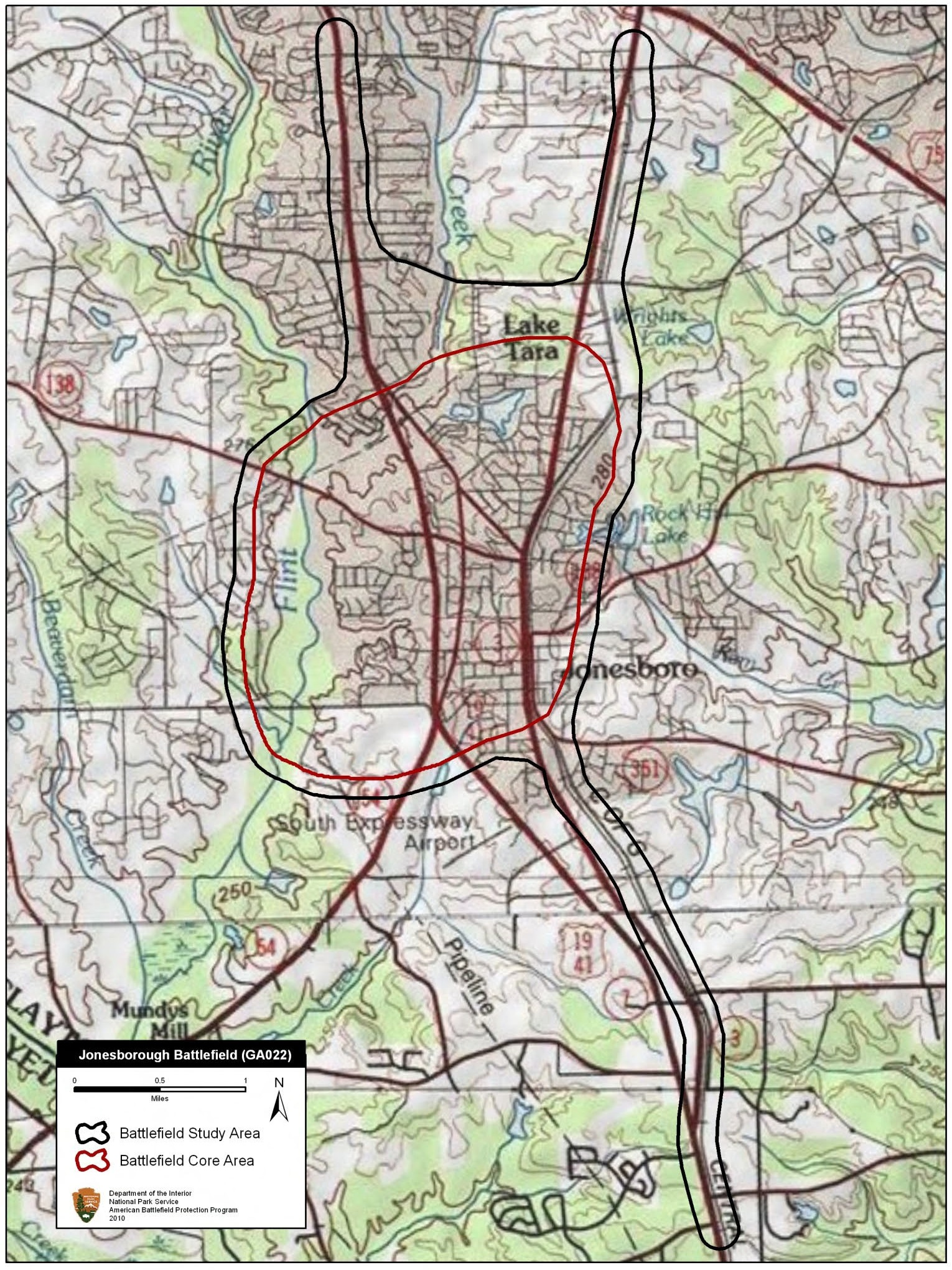 Map of battlefield core and study areas. The ABPP made minor changes to the 1993 Study Area. These include 1) adjusting the Federal and Confederate approach routes from the north on their historic alignments and lengthening these roads slightly to reflect the armies’ documented start and end points near Battlecreek Road; and 2) adding the Confederate retreat route to the south along which the weakened Confederates (Hood had ordered half of Hardee’s force to Atlanta the previous night) hastily withdrew under the assumed threat of Federal pursuit. In addition, both the Study Area and the Core Area were expanded to the north to take in lands associated with fighting on September 1, 1864.